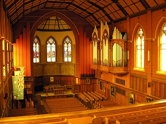 Memorial Hall at Scotch College, Melbourne